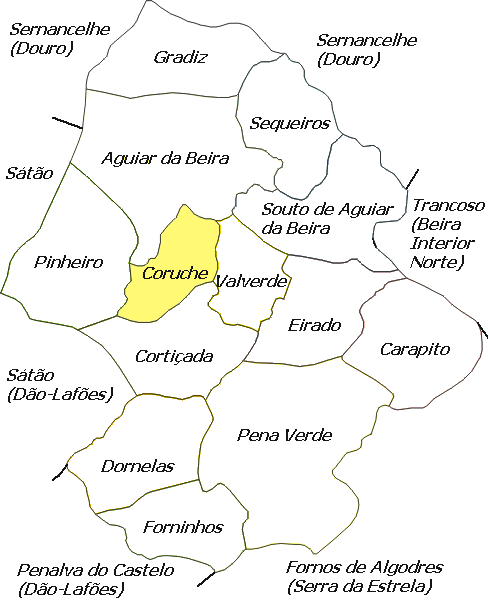 Map of Coruche (Aguiar da Beira) parish in Portugal. Author: Kullanıcı:Mskyrider.